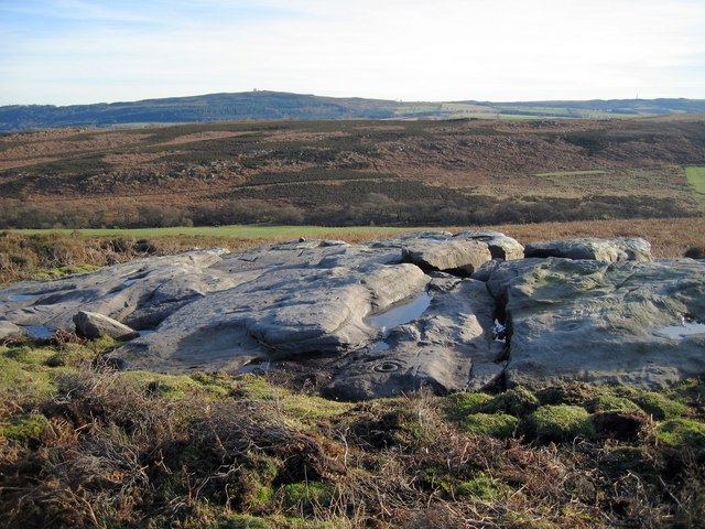 Cup and ring marked outcrop at Hunterheugh Crags View south-east over the ridge of Jenny's Lantern towards the hills above Alnwick on the distant skyline.